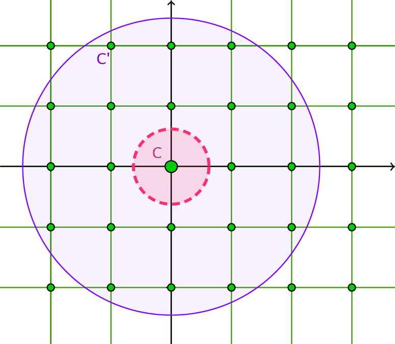 A basic example in geometry of numbers